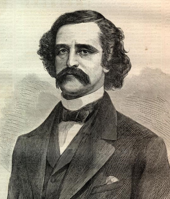 John T. Hoffman